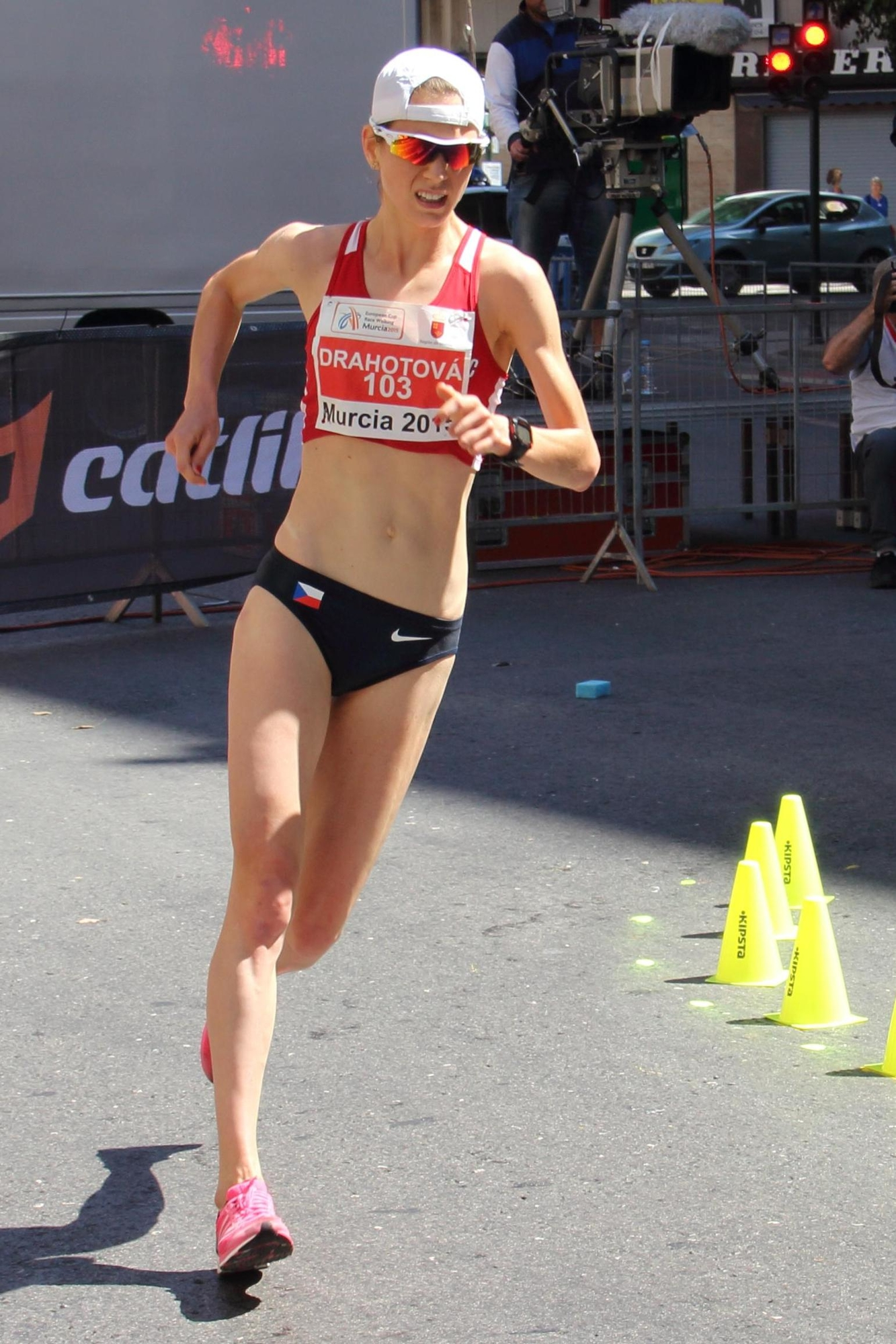 Anežka Drahotová, czech race walker, in the European Cup Race Walking 2015 (Murcia, Spain).